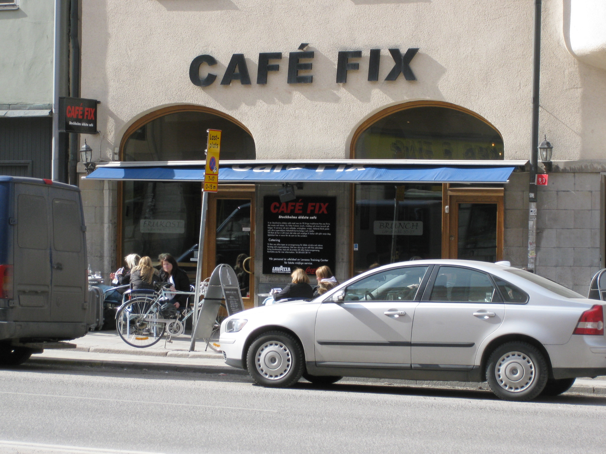 Café Fix, Kungsholmen, Stockholm, Sweden